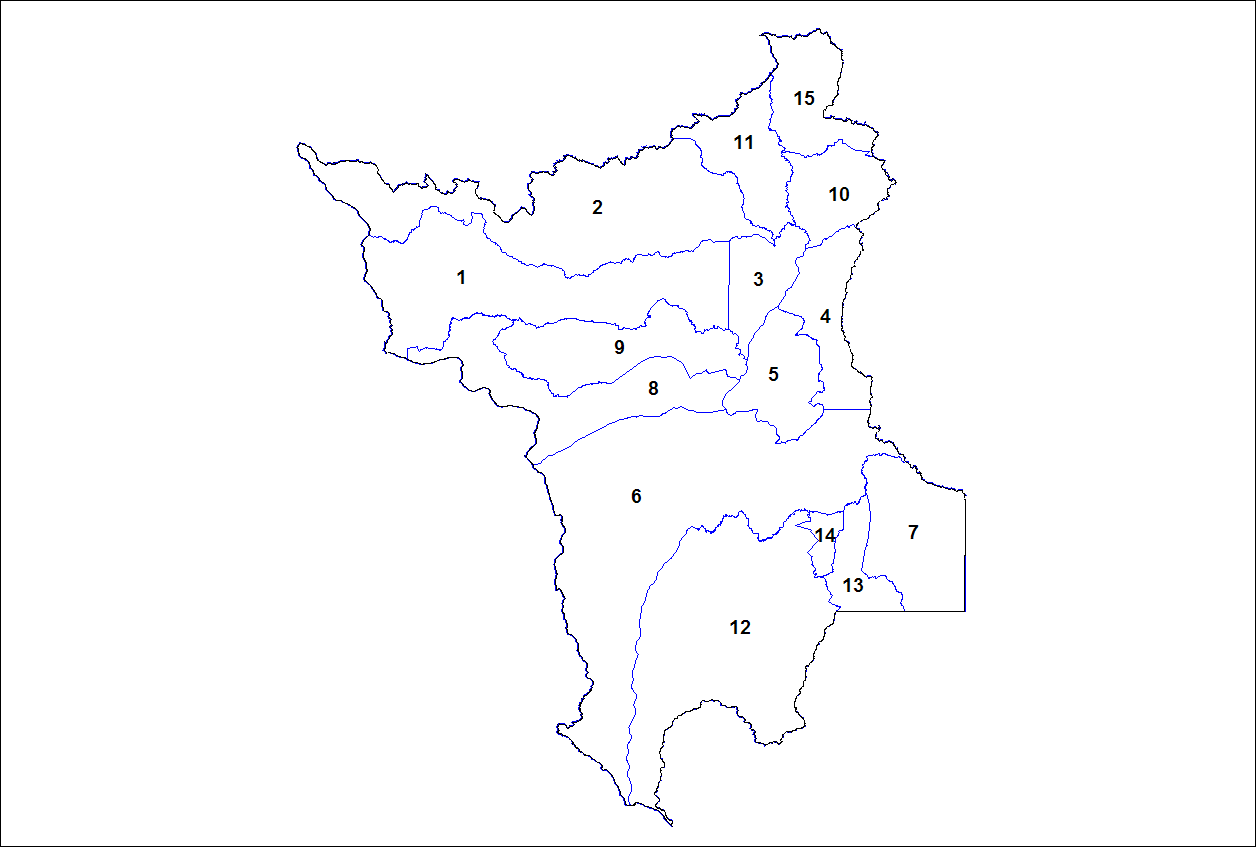 Map of the municipalities of the state of Roraima, Brazil. Created by Rarelibra 13:31, 25 August 2006 (UTC) for public domain use. Created using MapInfo v8.5 and various mapping resources.